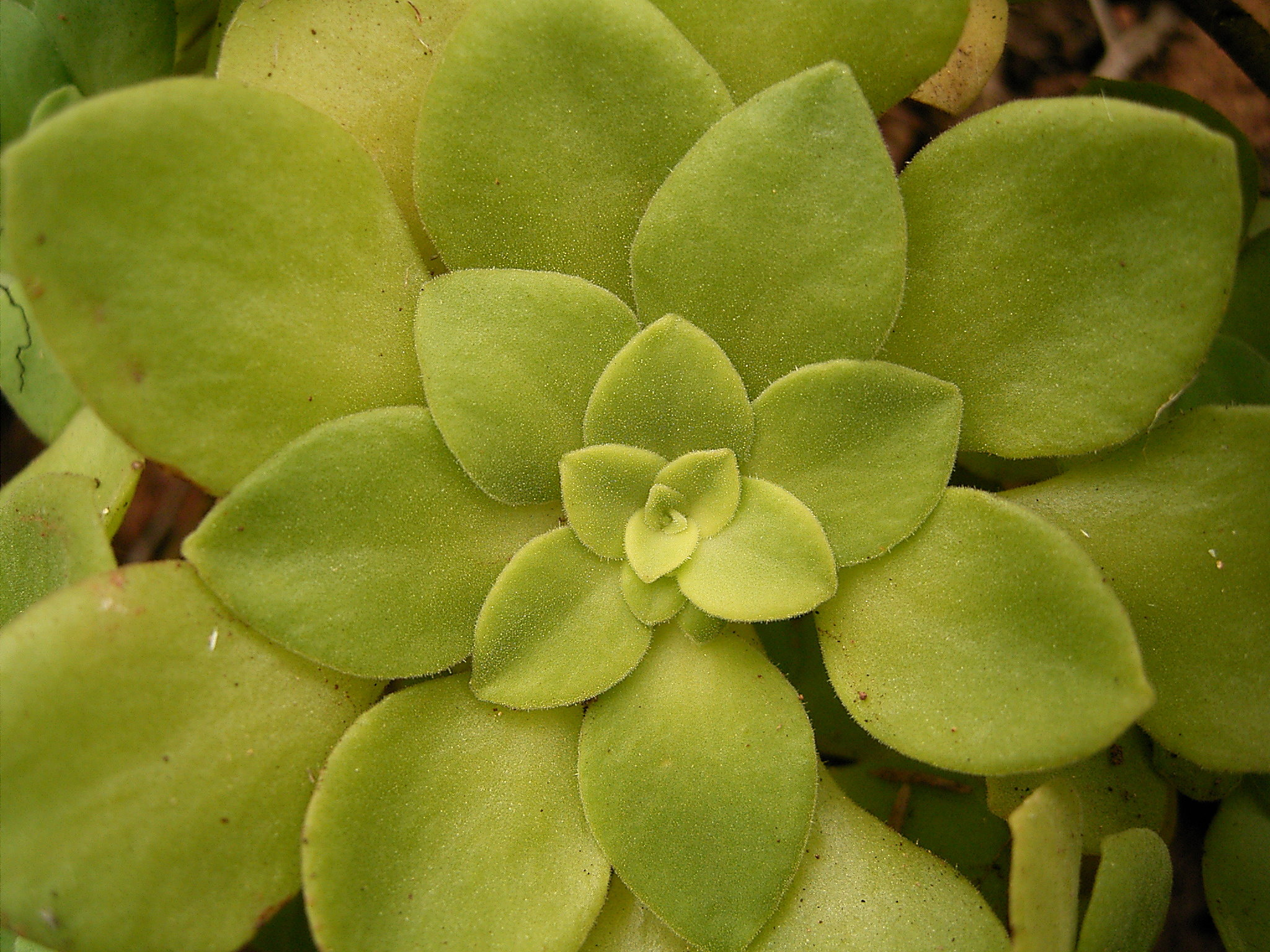 Aeonium goochiae growing in Barlovento, La Palma, Canary Islands